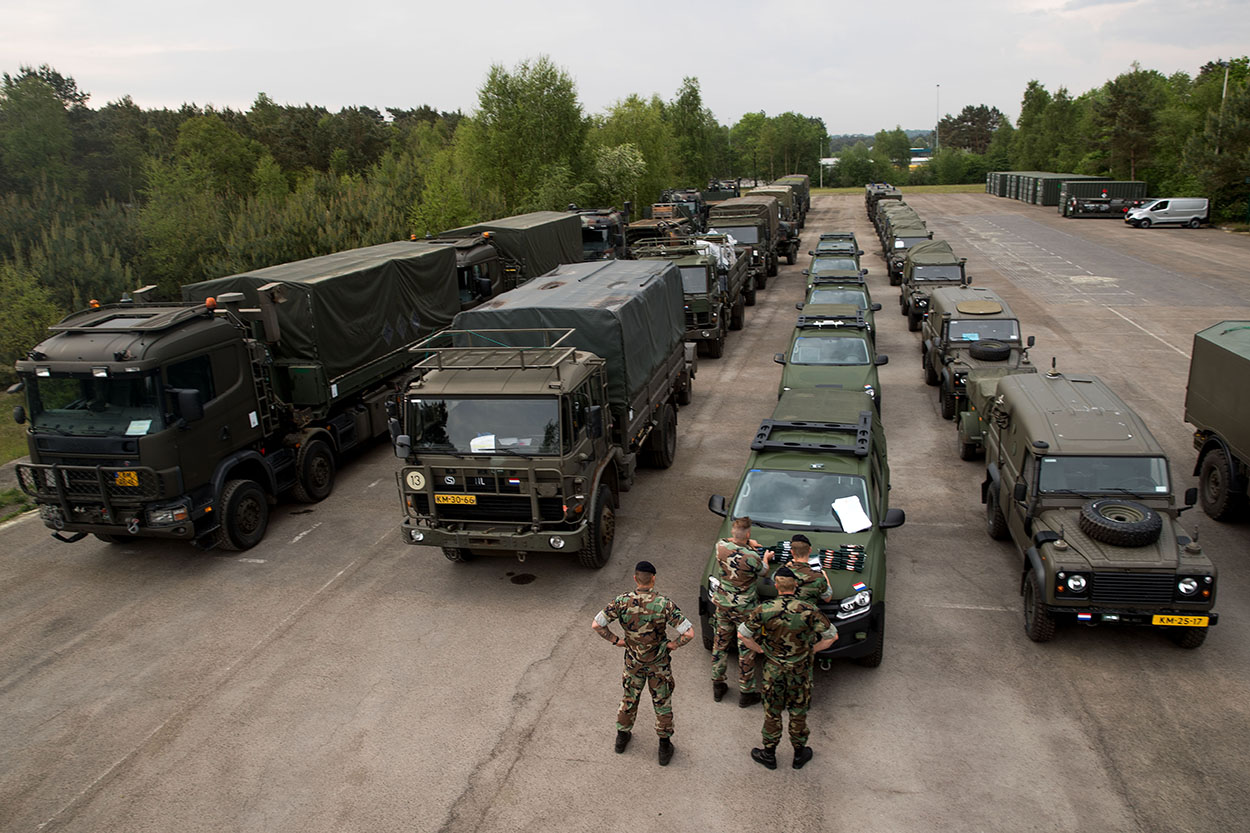 T' Harde 29th of May Dutch Marines in cooperation of MOVECON units load their equipment on trains bound for Romania. The Marines are part of the NATO VJTF and will conduct in the exercice NOBLE JUMP 2.